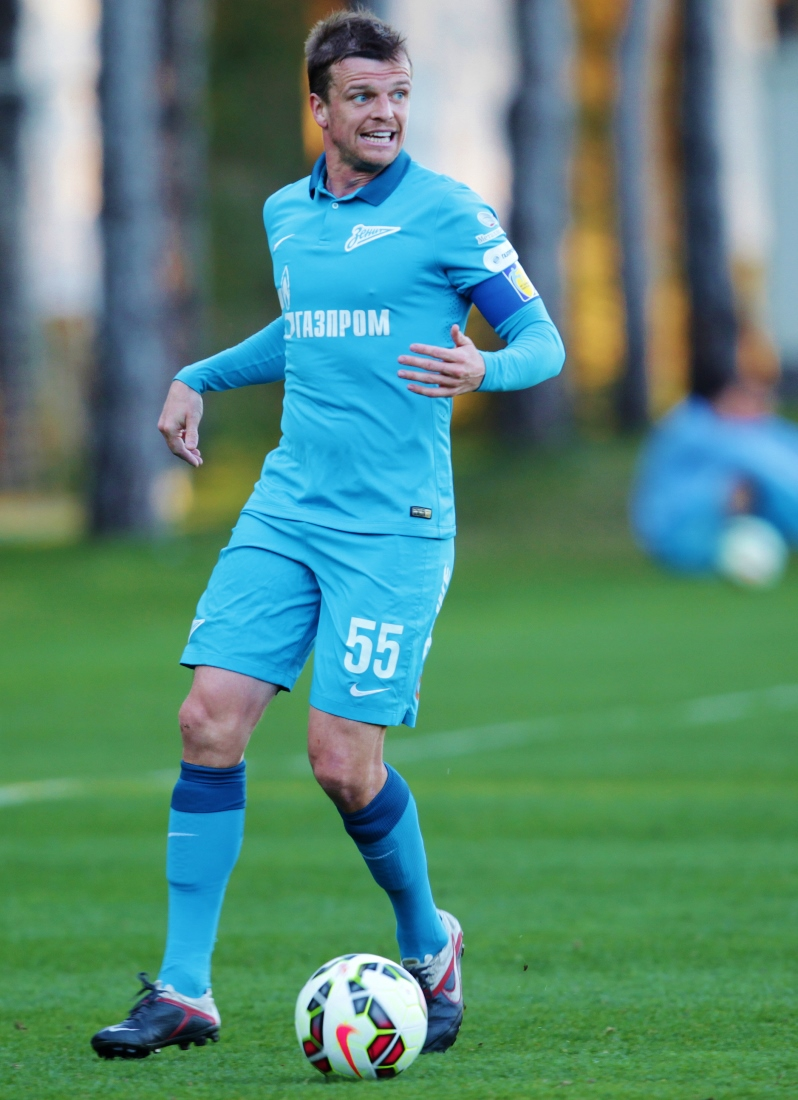 04.03.2015. Турция, Белек. Товарищеский матч «Зенит»-2 - «Пекин Баси»